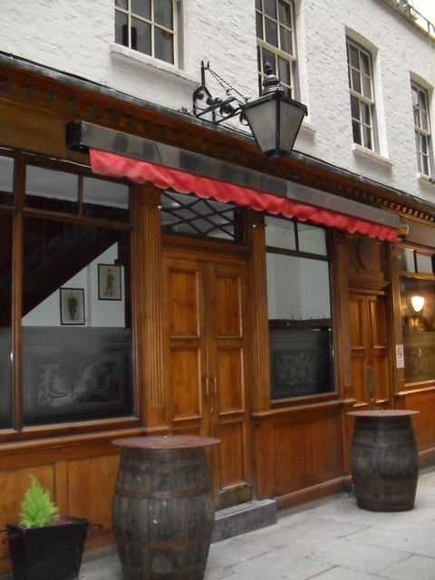 Barrels outside Simpson's Tavern